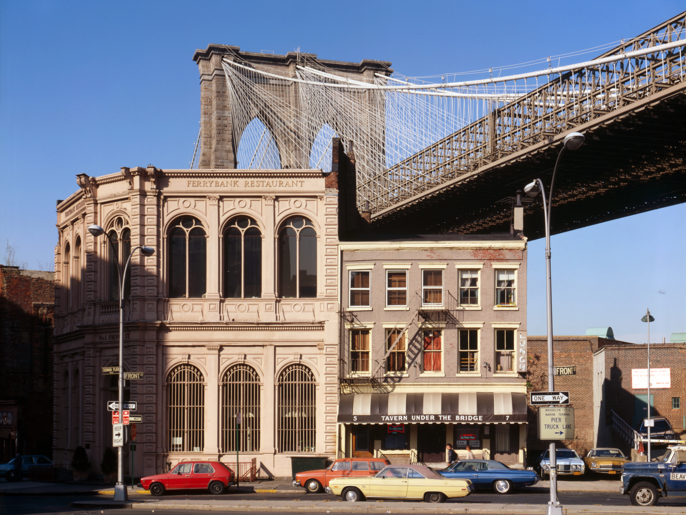 Looking north at Brooklyn Bridge, spanning East River between Brooklyn & Manhattan, New York City, New York County, NY. View of Brooklyn tower emerging behind nineteenth century commercial buildings on the corner of Front Street and Old Fulton Street (also called Cadman Plaza West).